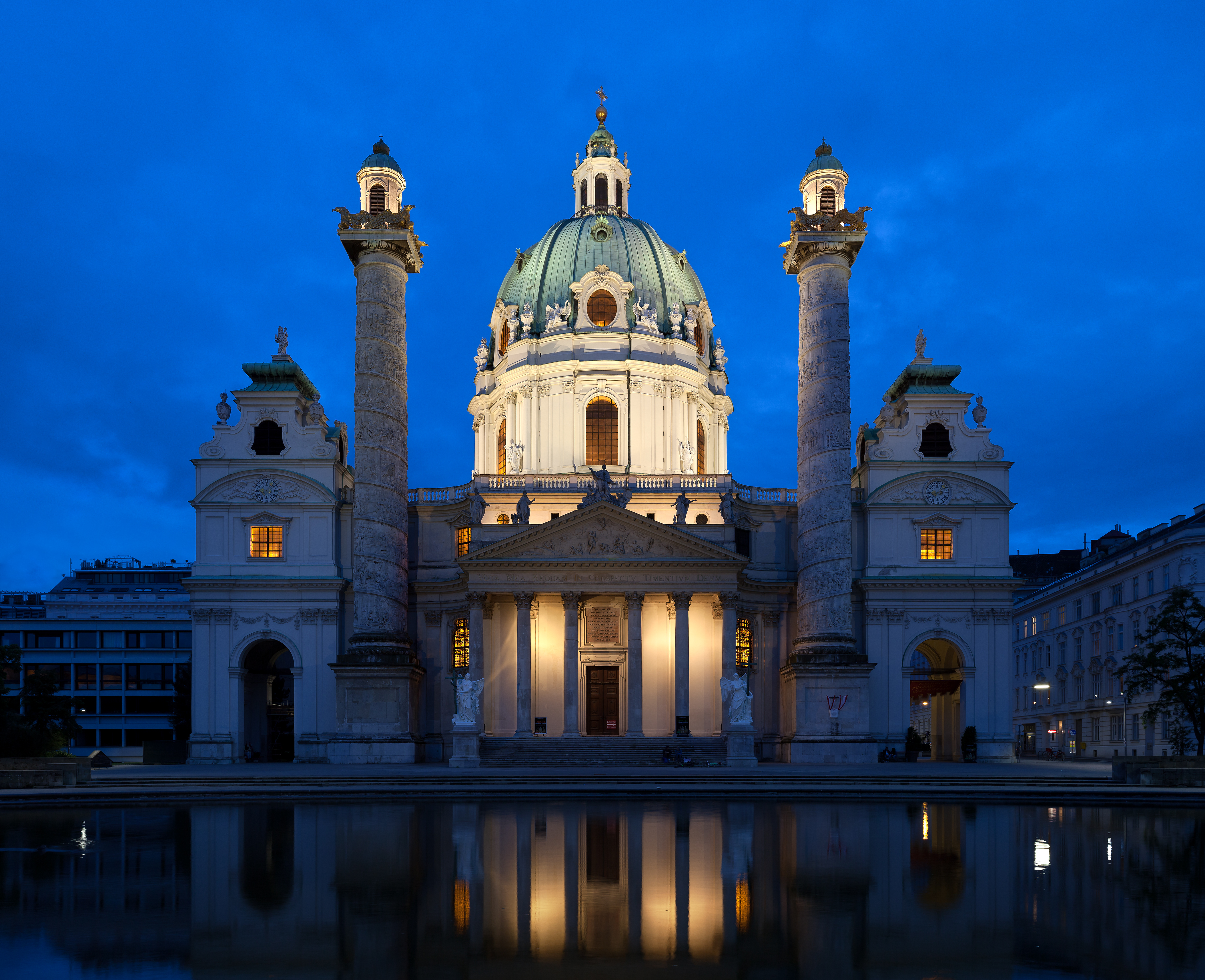 Karlskirche in Vienna, Austria